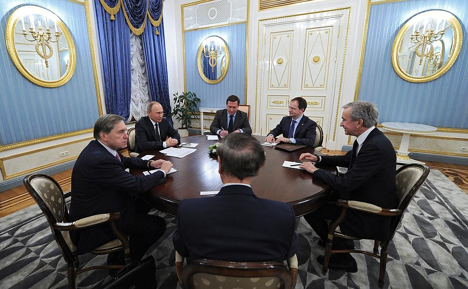 Bernard Arnault in meeting with Vladimir Putin